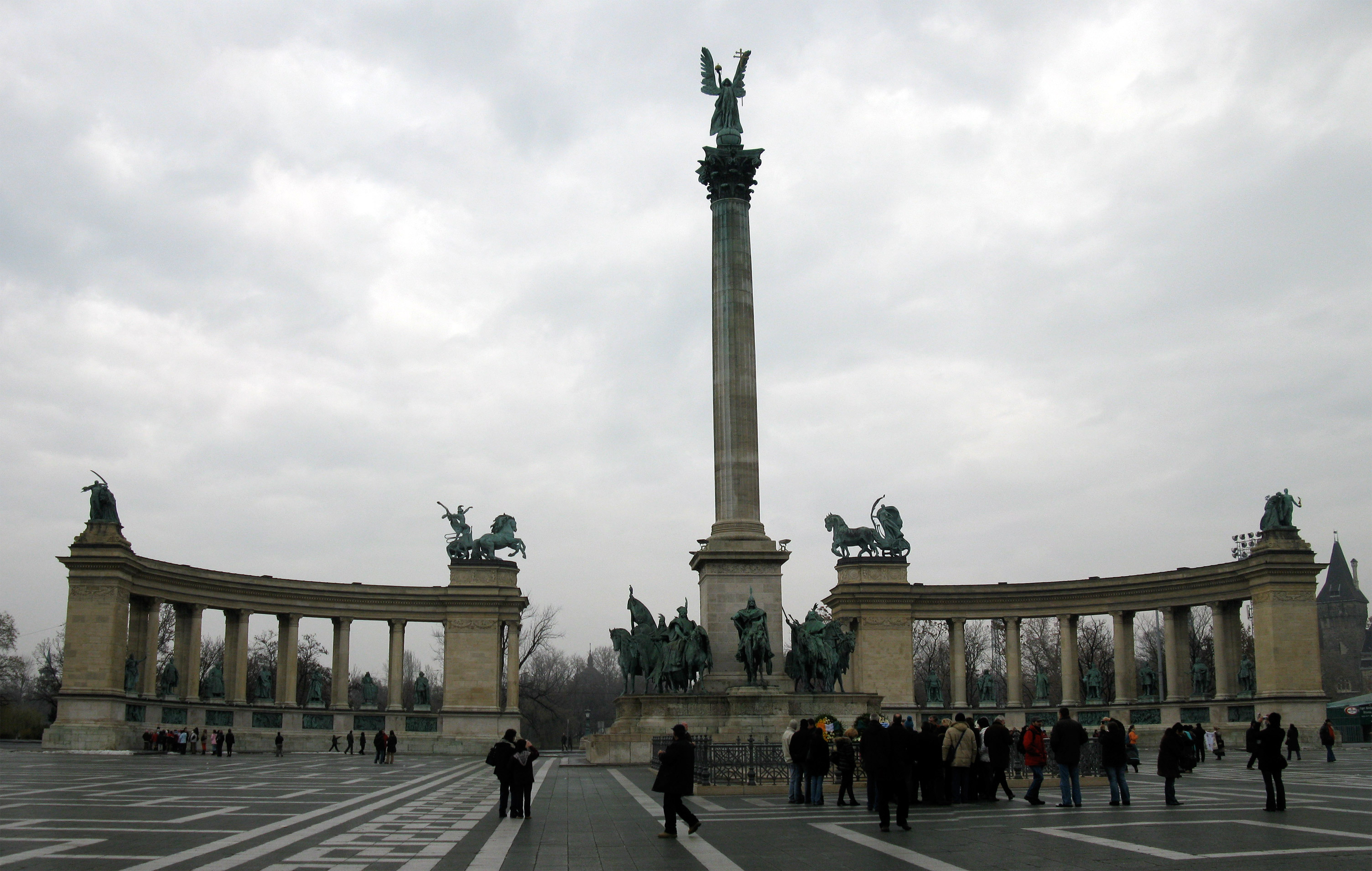 Picture of Heroes Square in Budapest, November 2008